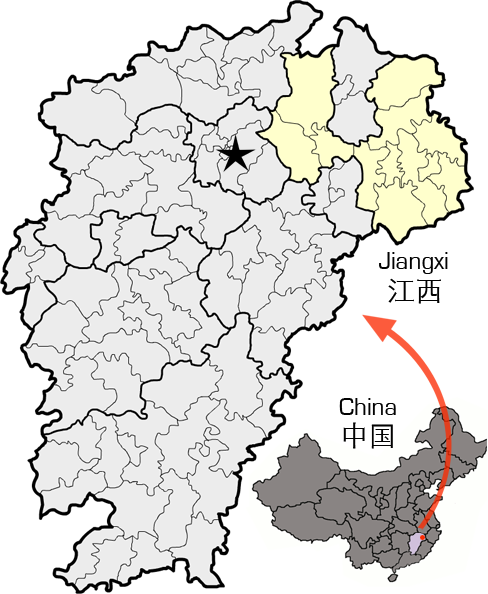 Map showing the location of Shangrao within Jiangxi Province China